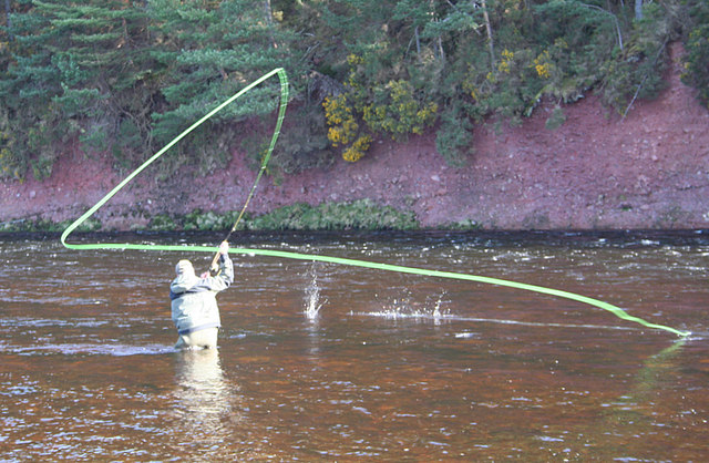 The "single" Spey cast Spey casting as the name suggests originated on this famous river. There's the Single Spey and the Double Spey cast and these are executed in different ways depending on which river bank you are fishing from. Unlike the "overhead" cast the Spey cast can be practiced even if there is a heavy tree cover behind the angler; that of course is why it was invented.